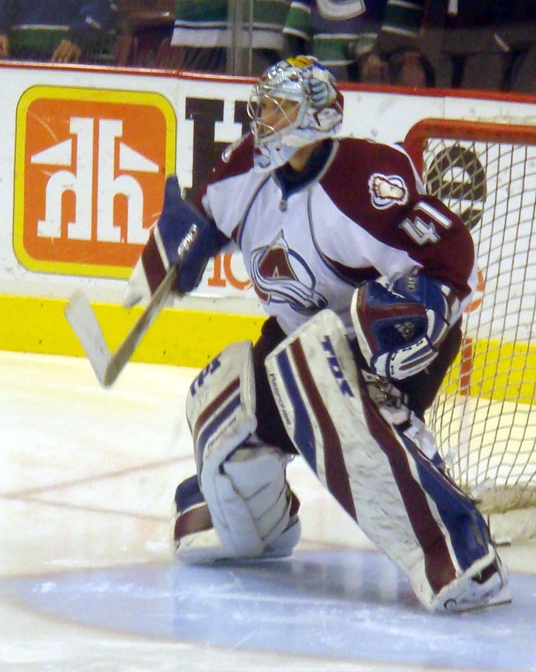 Colorado Avalanche goaltender Craig Anderson in a game against the Vancouver Canucks on November 1, 2009.